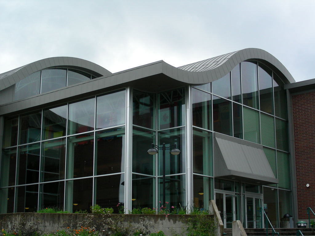 Lane Community College, building one, taken by me (Qwe), on 06/02/2006.